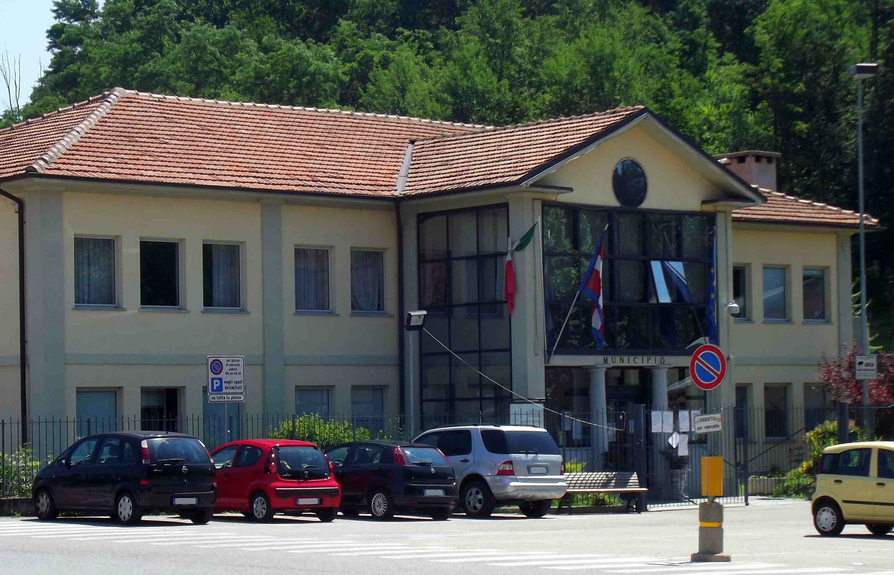 Andezeno (TO, Italy): town hall